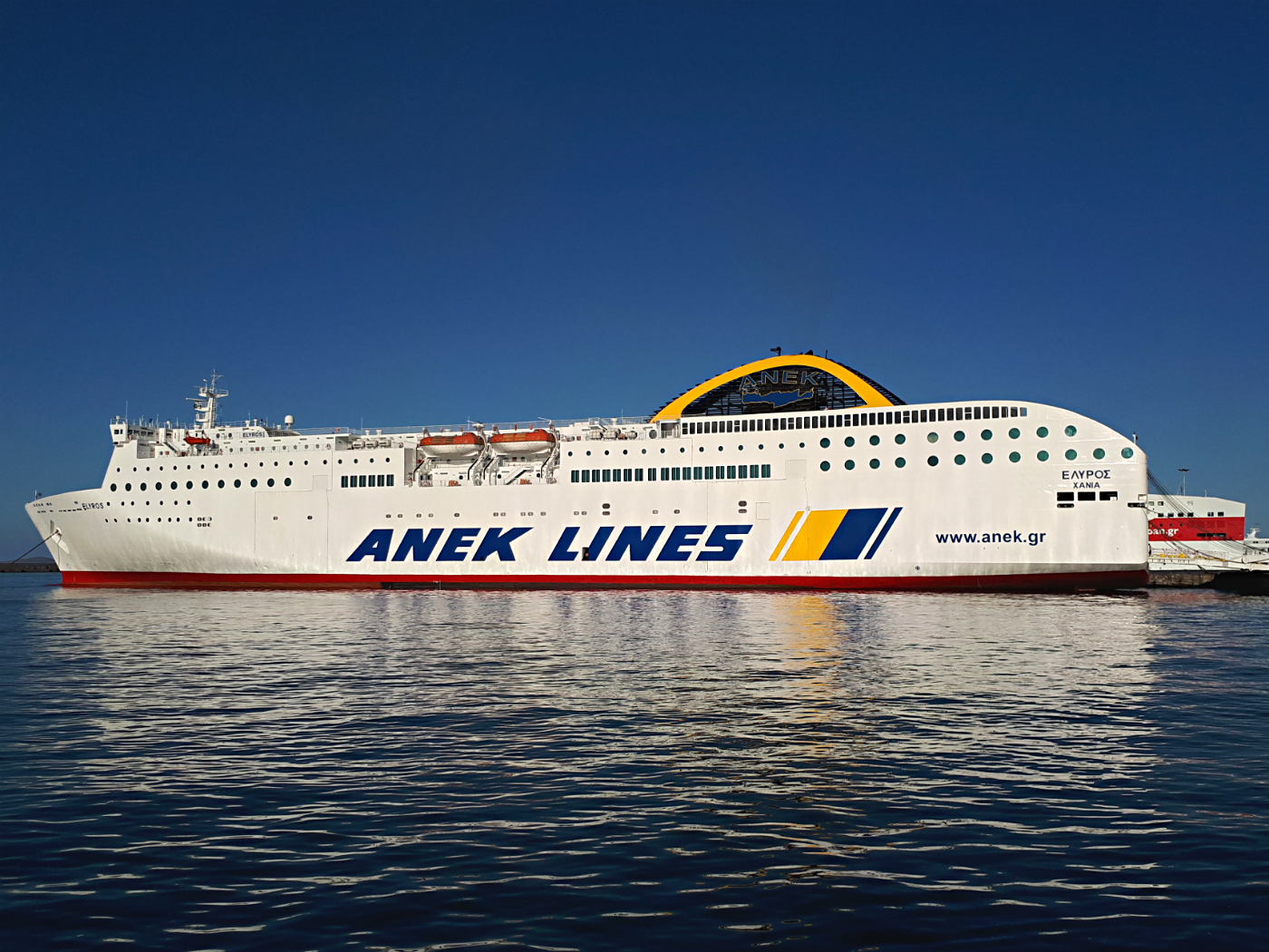 ANEK Lines F/B Elyros, SVOM, IMO 9178599, in the port of Heraklion.